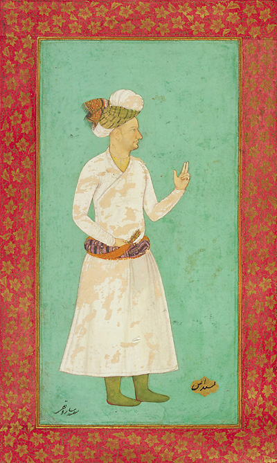 Painting of Saru Taqi, a man of unknown origins, who served as the vizier of the Iranian Safavid Empire from 1633 to 1645.